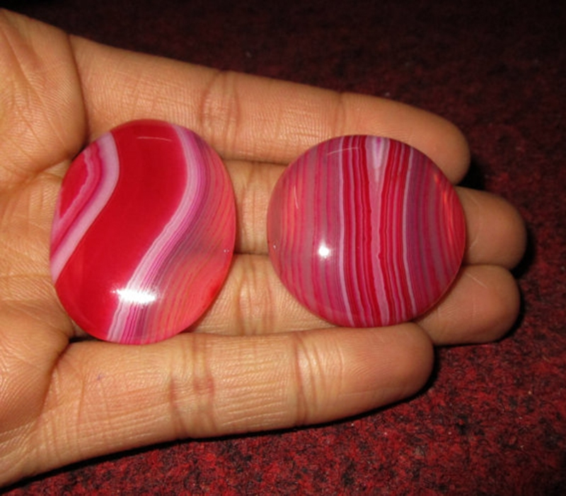 Red onyx